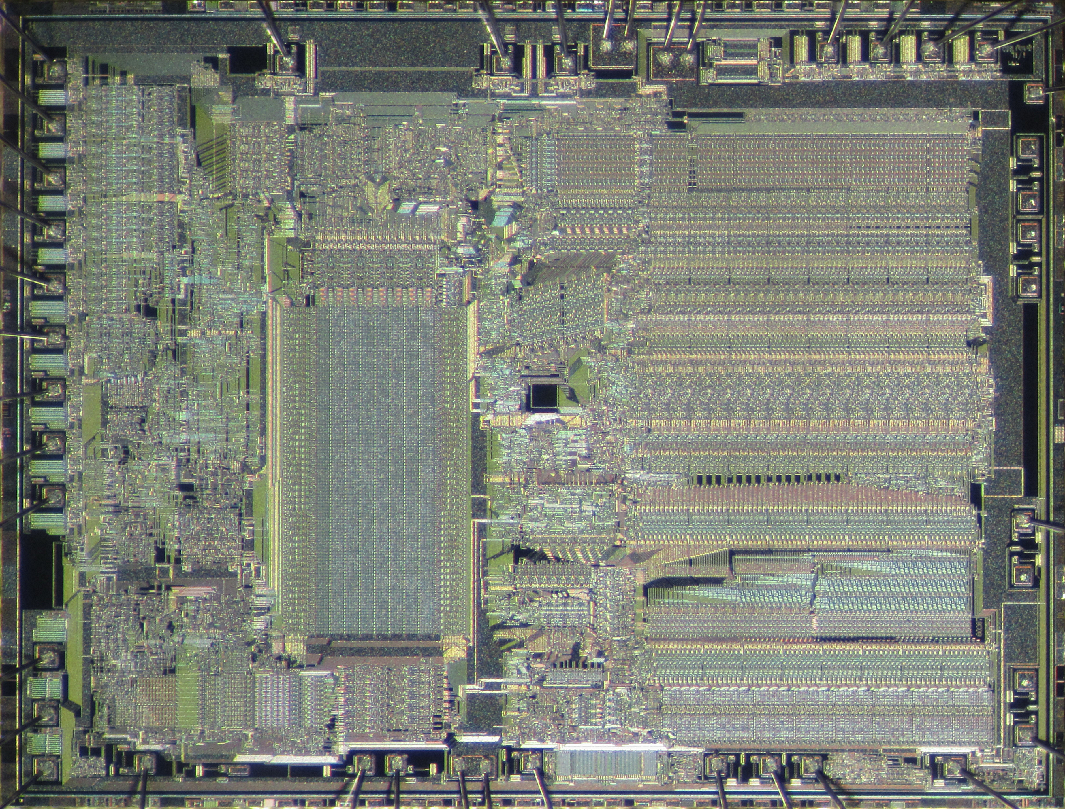 Die shot of Intel 80287 that is a math (floating point) coprocessor chip.